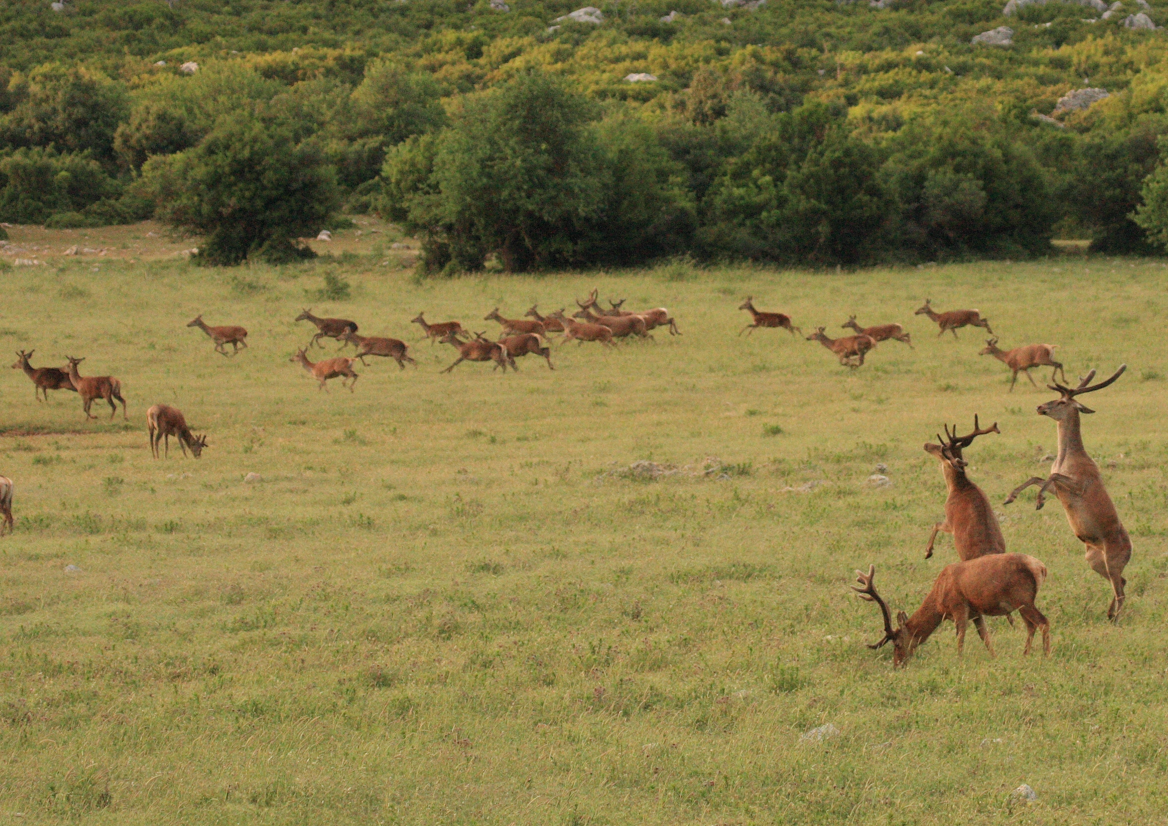 A group of red deers on the Mount Parnitha, Greece